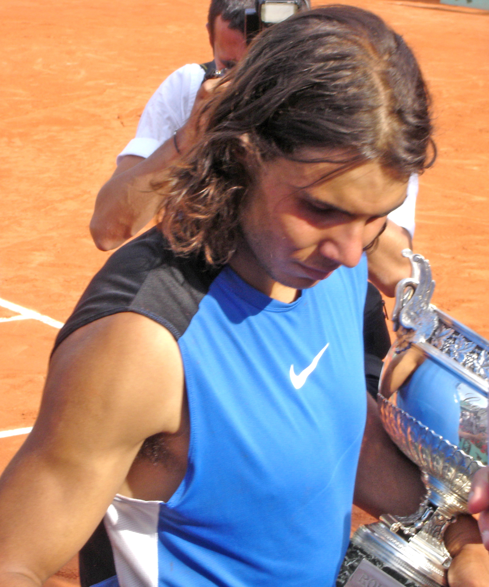 Rafael Nadal at Roland Garros 2006